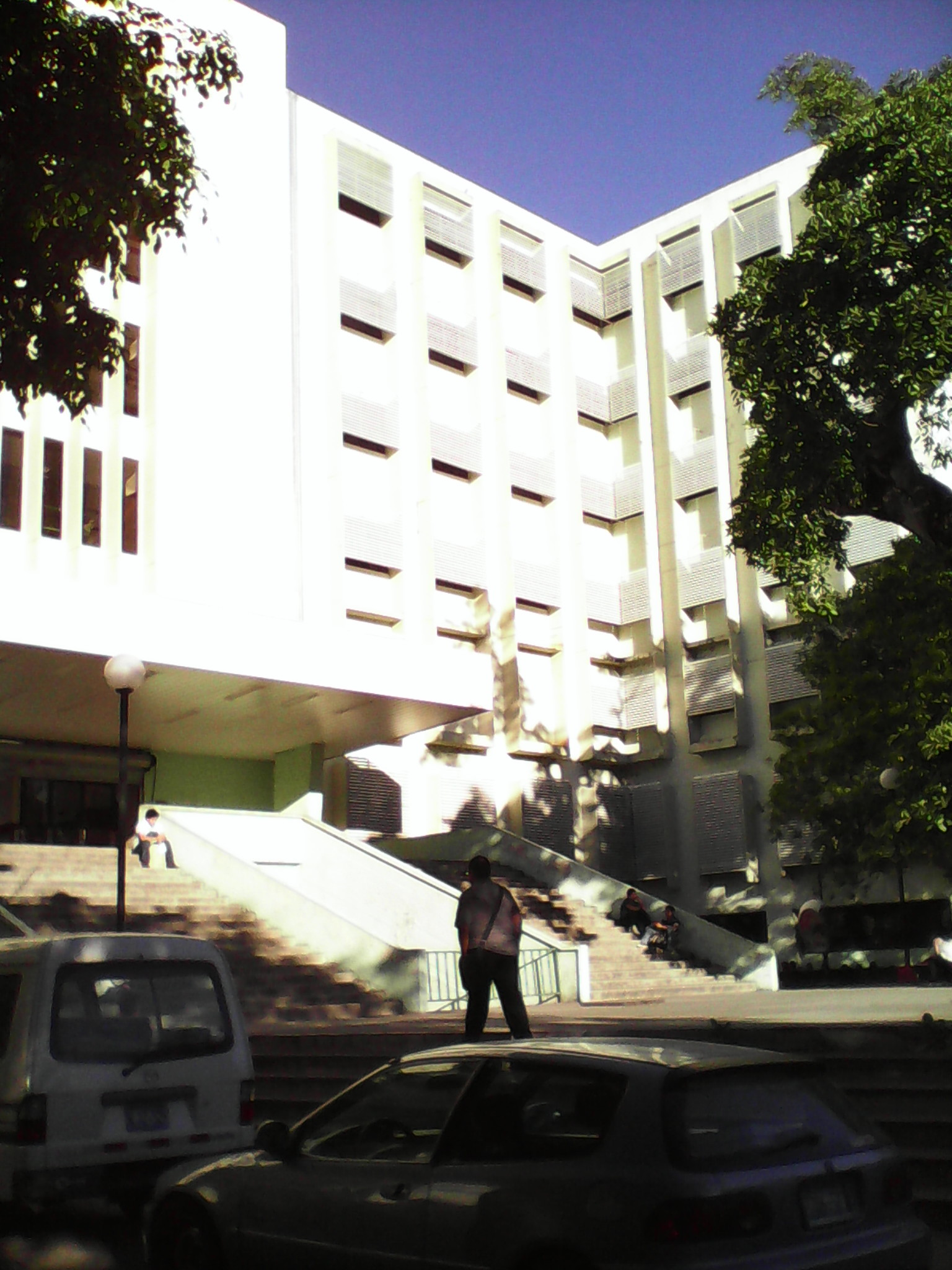 Edificio de la Facultad de Medicina de la Universidad de El Salvador